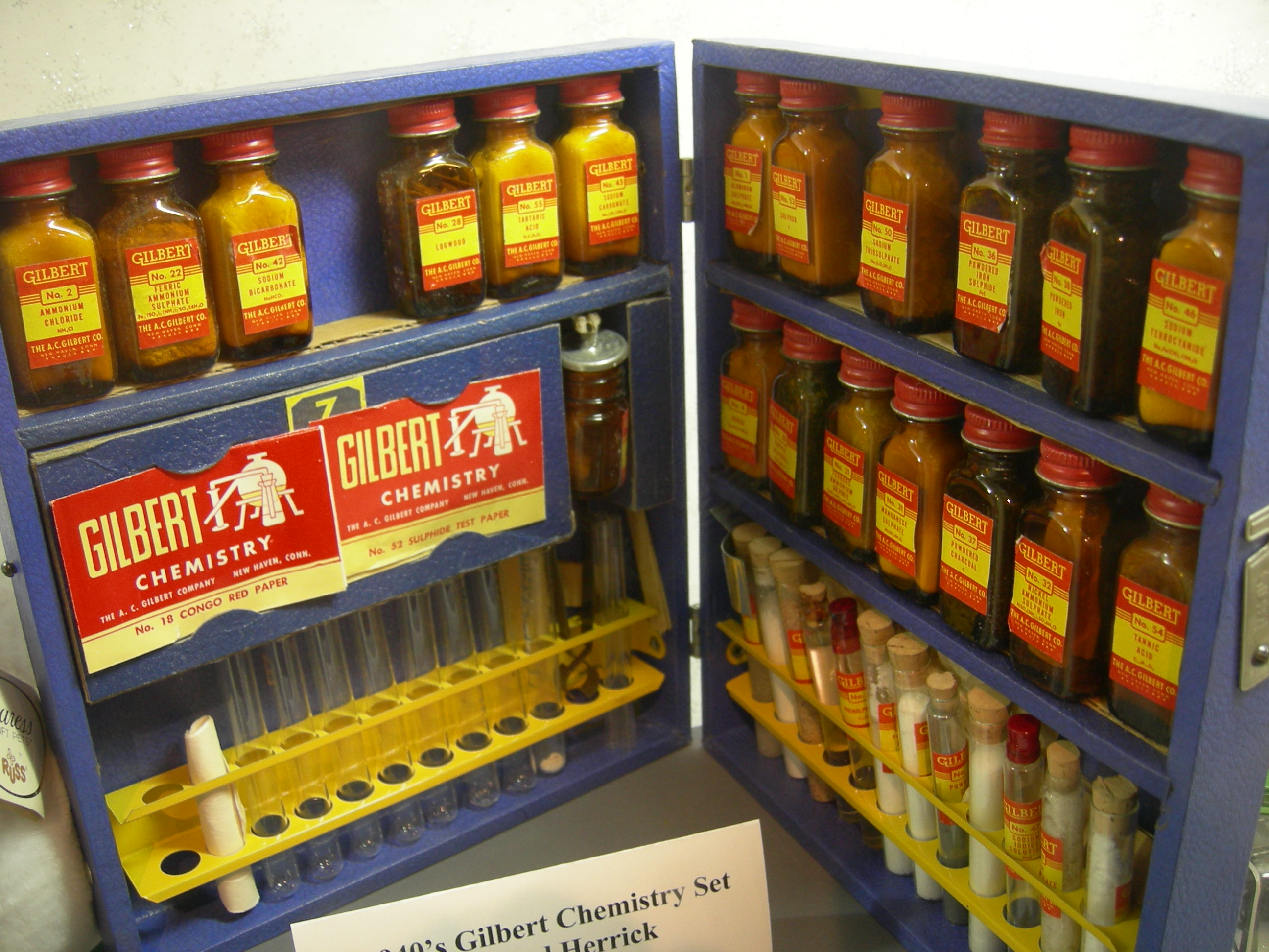 1940s Gilbert chemistry set. Photographed at Shoreline Historical Museum, Shoreline, Washington. Includes: Top row Ammonium chloride Ferric ammonium sulfate Sodium bicarbonate Logwood (Haematoxylum campechianum) Tartaric acid Sodium carbonate Ammonium sulfate Sulfur Sodium thiosulfate Powdered iron sulfide Powdered iron Sodium ferrocyanide Second row Ferrous ammonium sulfate Maganese sulfate Powdered charcoal Nickel ammonium sulfate Tannic acid Bottom row Phenolphthalein Sodium iodide solution